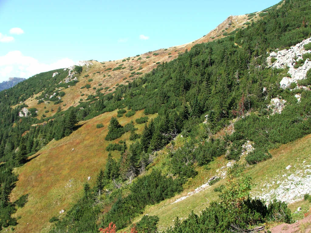 Tomanowy Grzbiet(Tatra Mountains)